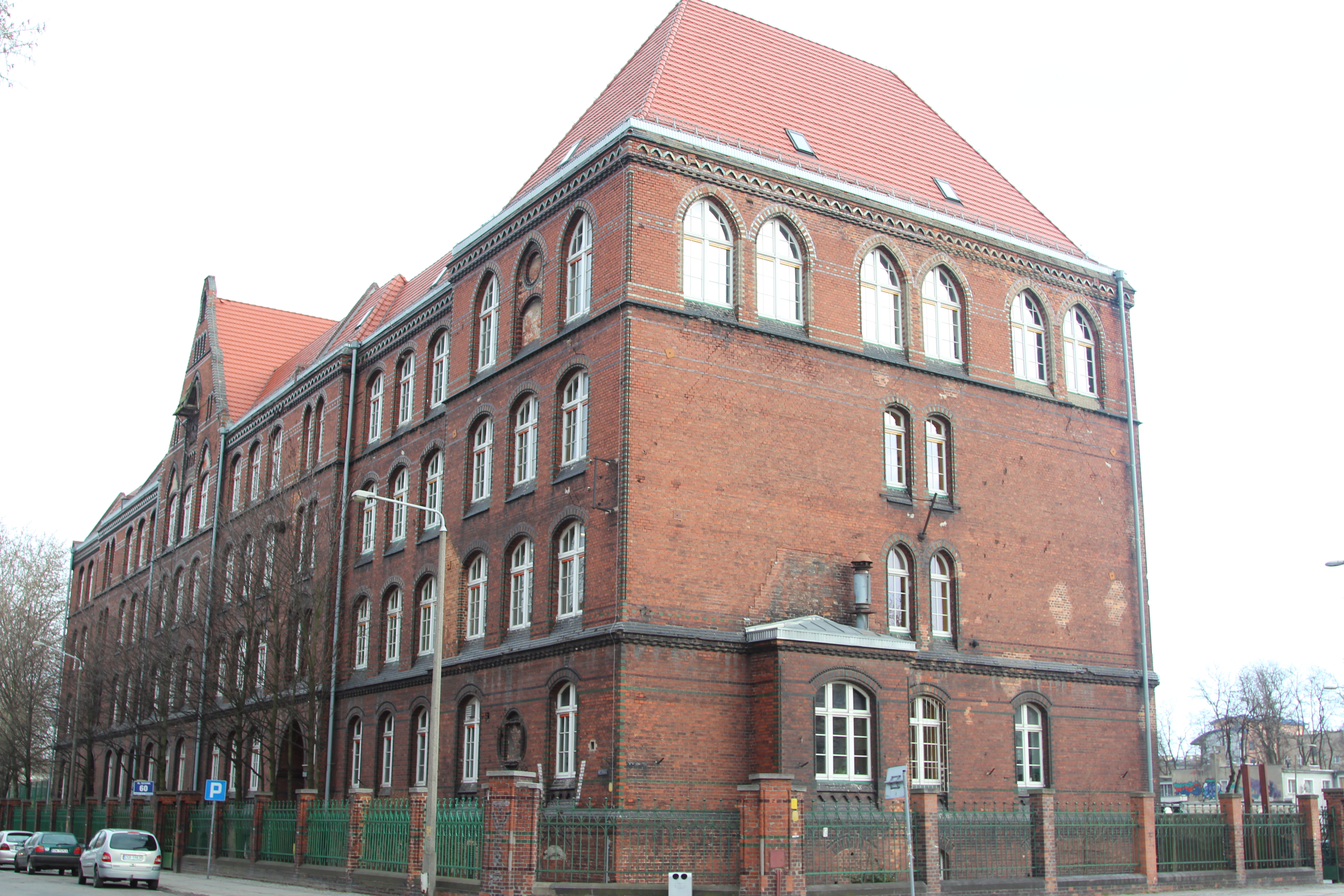 17th LO in Wroclaw